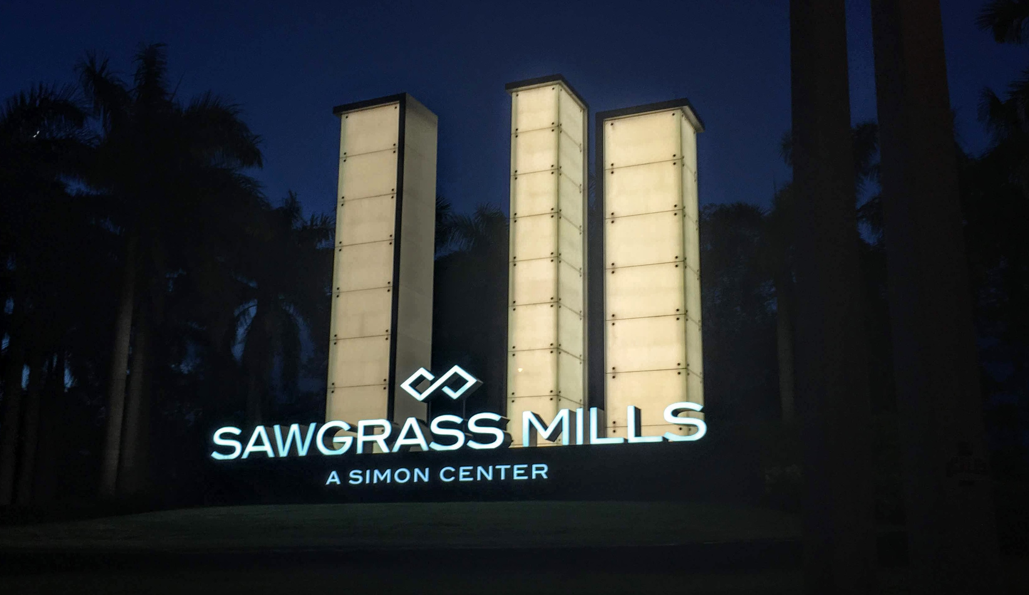 The entrance to the Sawgrass Mills mall at night.